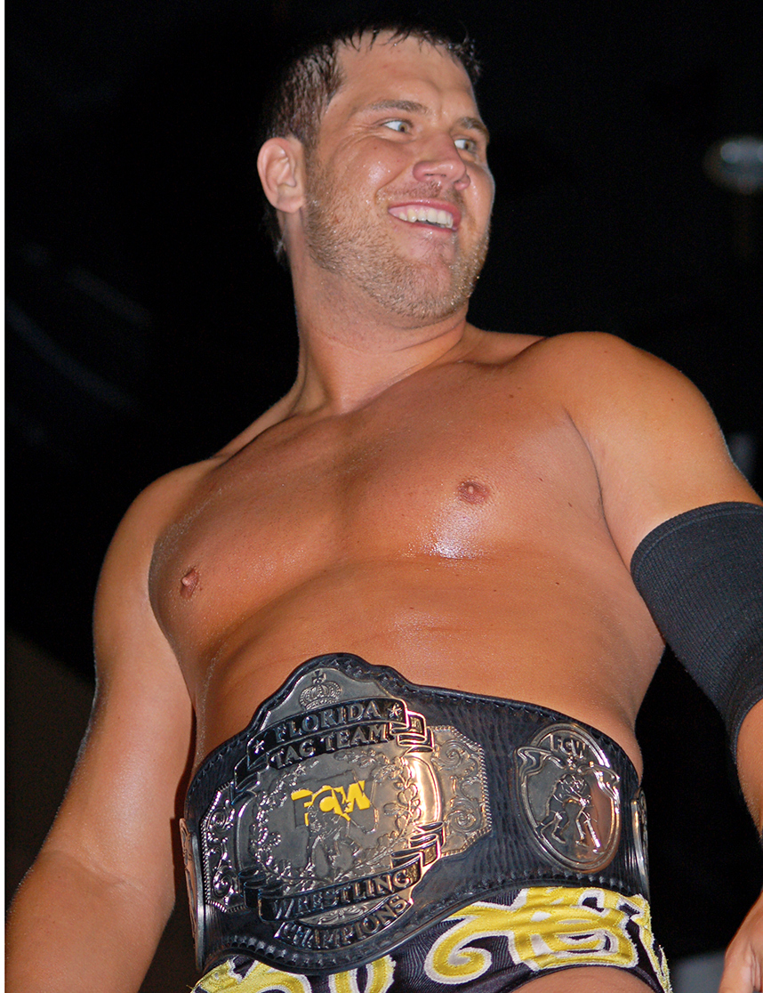 Photo I took of Joe Hennig in Ft. Myers FL on 01/15/2010